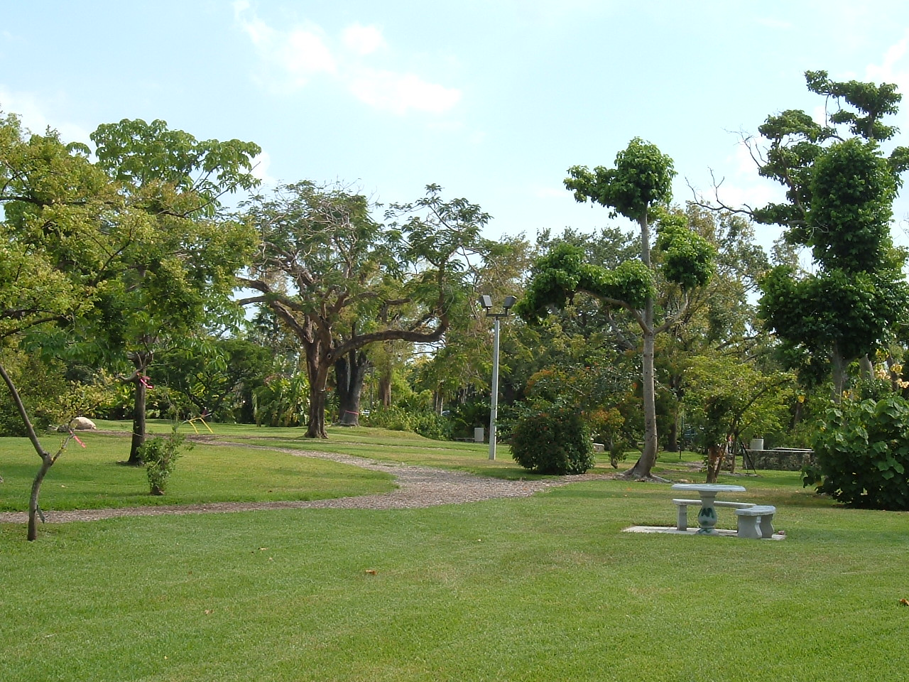 John C. Gifford Arboretum at the University of Miami. Taken Dr Zak 22:13, 5 May 2006 (UTC)